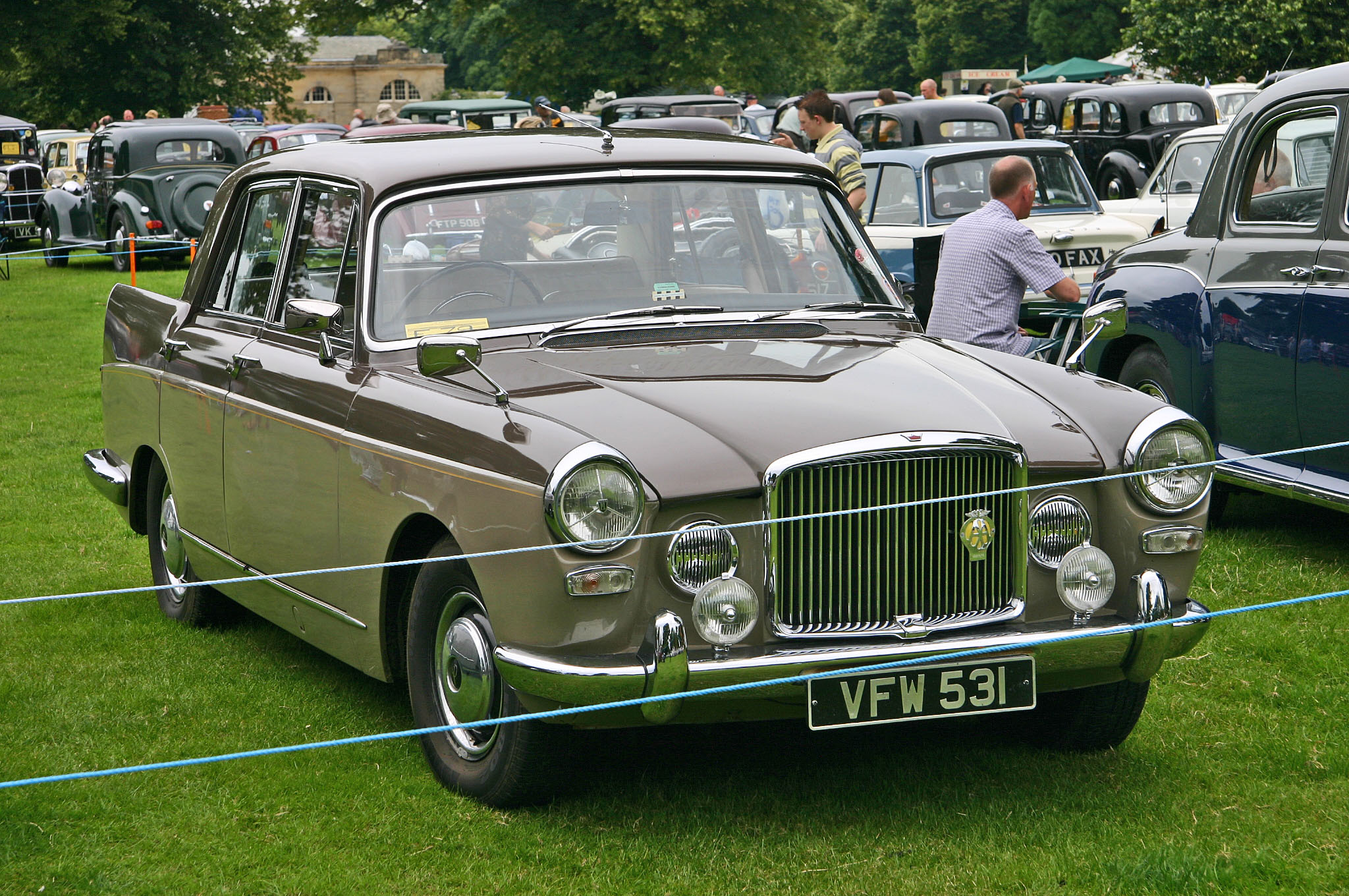 The original 3-litre Vanden-Plas Princess.